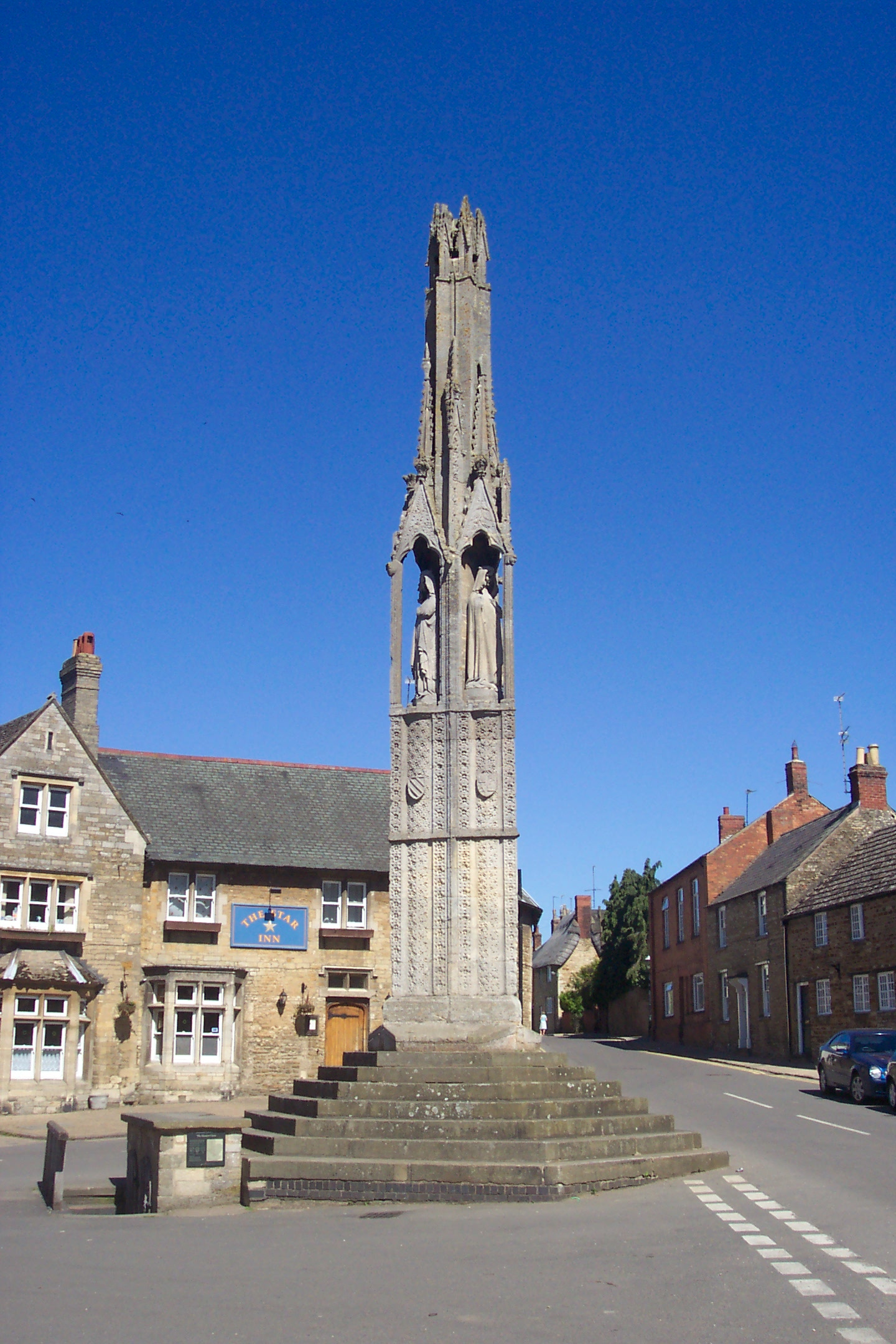 Taken by me, Lofty 12:35, 11 June 2006 (UTC)